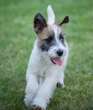 A Rough-Coated Jack Russell Terrier puppy doing what puppies do best...!